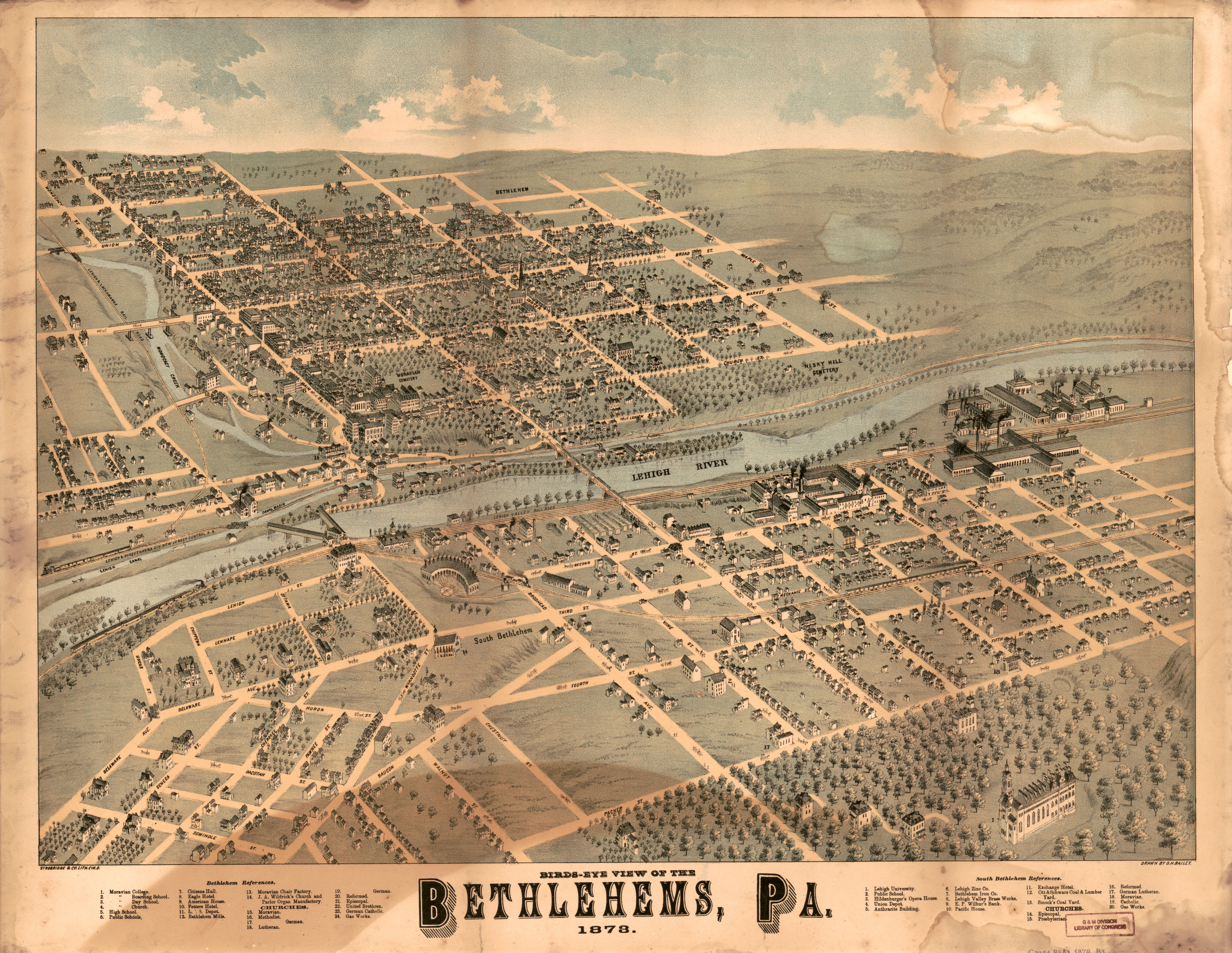 Aerial view of the boroughs of Bethlehem and South Bethlehem (merged in 1917 to form the City of Bethlehem). Relief shown by shading and landform drawings. Oriented with north toward the upper left. LC copy imperfect: Darkened, partly water-stained, fold-lined, missing small sections along sheet edges. Includes separate indexes to points-of-interest for Bethlehem and South Bethlehem. Available also through the Library of Congress Web site as a raster image.